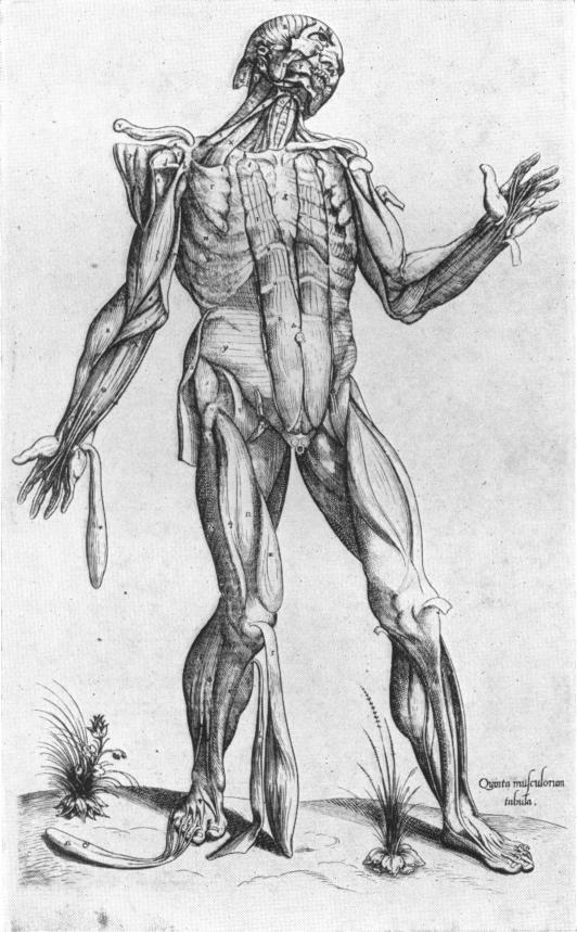 One of forty engraved copper plates by Thomas Geminus appearing in his book "Compendiosa totius Anatomie delineatio aere exarata" after the woodcuts from Vesalius' "Epitome", an abbreviated form of his 1543 work "De humani corporis fabrica"